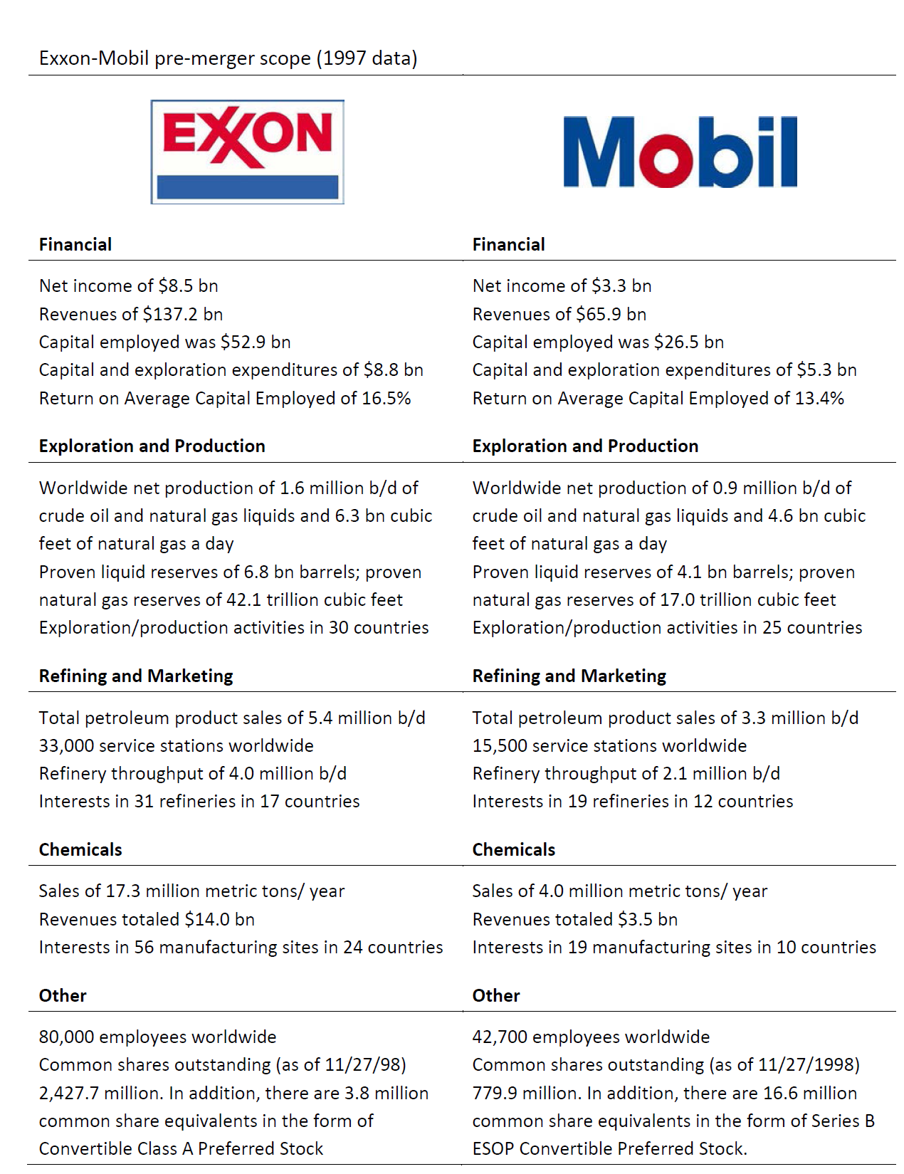 Based on following data sources: Exxon Corp annual report 1997; Mobil Corp annual report 1997; Exxon-Mobil, Total-Petrofina mergers slated // Oil & Gas Journal, Vol. 96, No 49, Dec 1998, p. 37